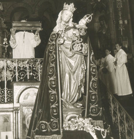 View of the chancel of the Basilica of Our Lady in Maastricht, Netherlands, during the presentation of the relics as part of the 1962 Pilgrimage of the Relics (Heiligdomsvaart). Here the relic of the girdle of the Virgin Mary is shown. In the foreground: the statue of Our Lady, Star of the Sea. Photo: Municipal Archives Maastricht (GAM 25199), part of RHCL collections.